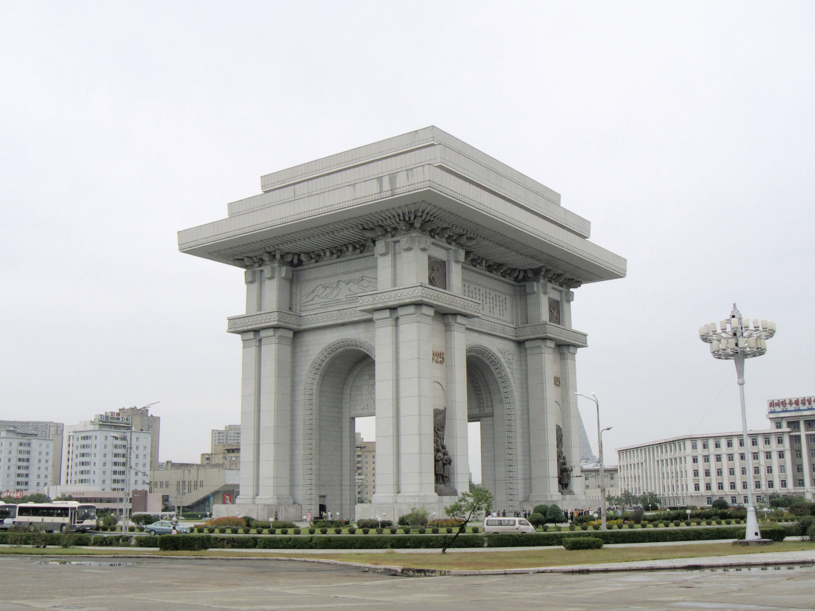 One of Kim Il Sung's many monumental birthday presents to himself, the Arch of Triumph was completed in 1982, for his 70th birthday. The structure commemorates the triumphant homecoming of Kim Il Sung after he "liberated Korea from Japan".